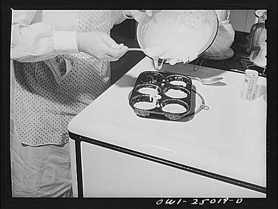 A housewife preparing cornbread biscuits during the Great Depression in San Augustine, Texas.